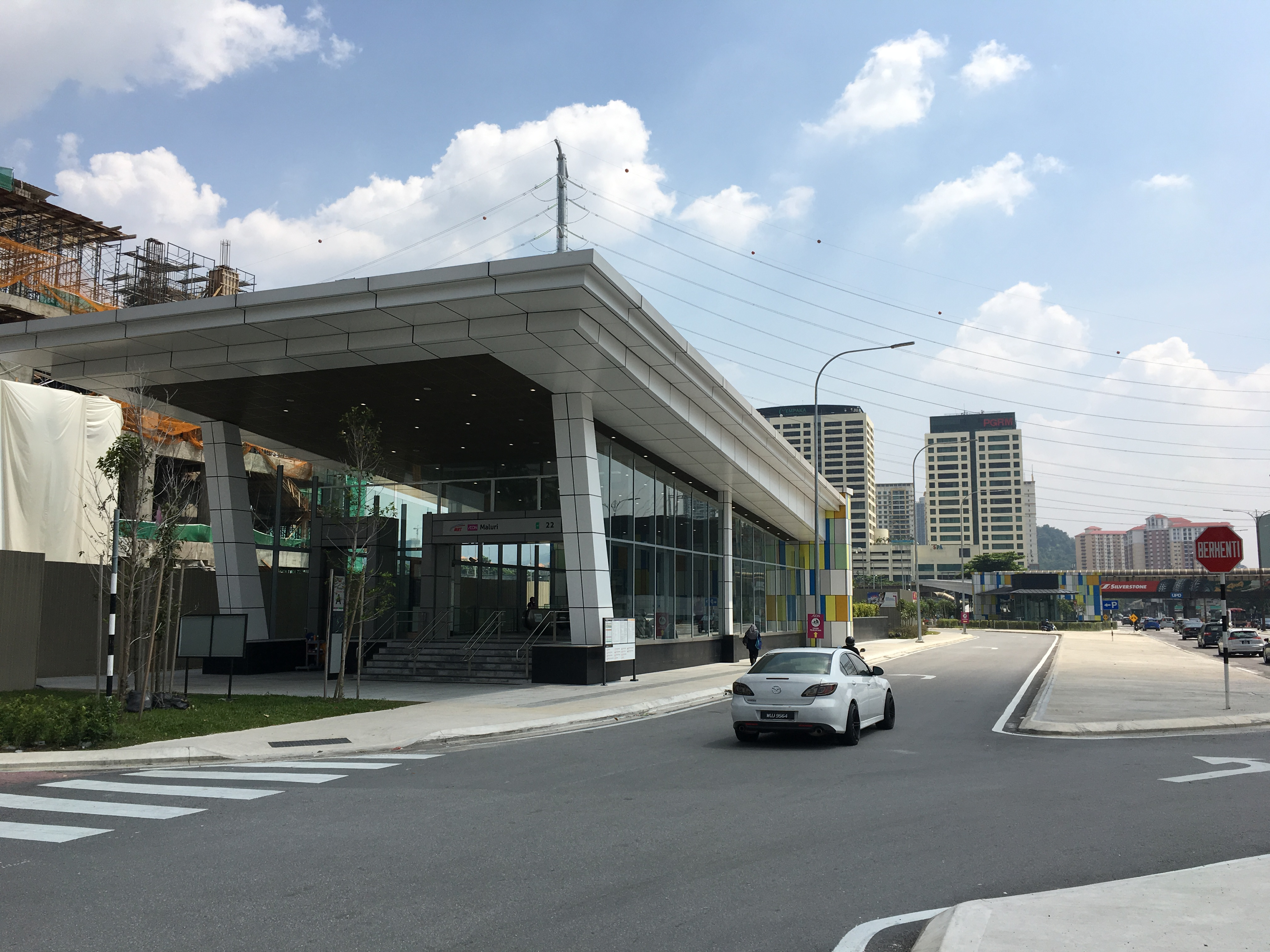 Entrance A of the station on the north side of Jalan Cheras to access AEON Maluri Shopping Centre